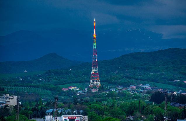 Television tower in the city of Nalchik